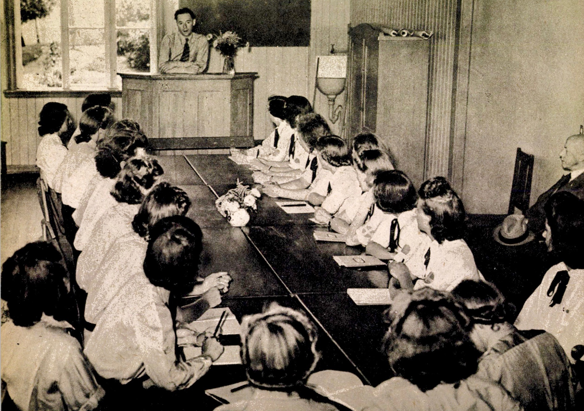 Photo from "Liv i kamp for Norge" ("Marie og Gulbrand Lunde Et liv i kamp for Norge"), a memorial book about Norwegian couple Marie (1907–1942) and Gulbrand Lunde (politician, 1901–1942), published by "Rikspropagandaledelsen" (propaganda department of Nasjonal Samling, Norwegian fascist party 1933–1945) and "Blix forlag" in Oslo, Norway 1942. Cropped JPG from PDF (a low resolution digitized version) of the book downloaded from National Library of Norway's site NO-OsNB (999824600824702202)